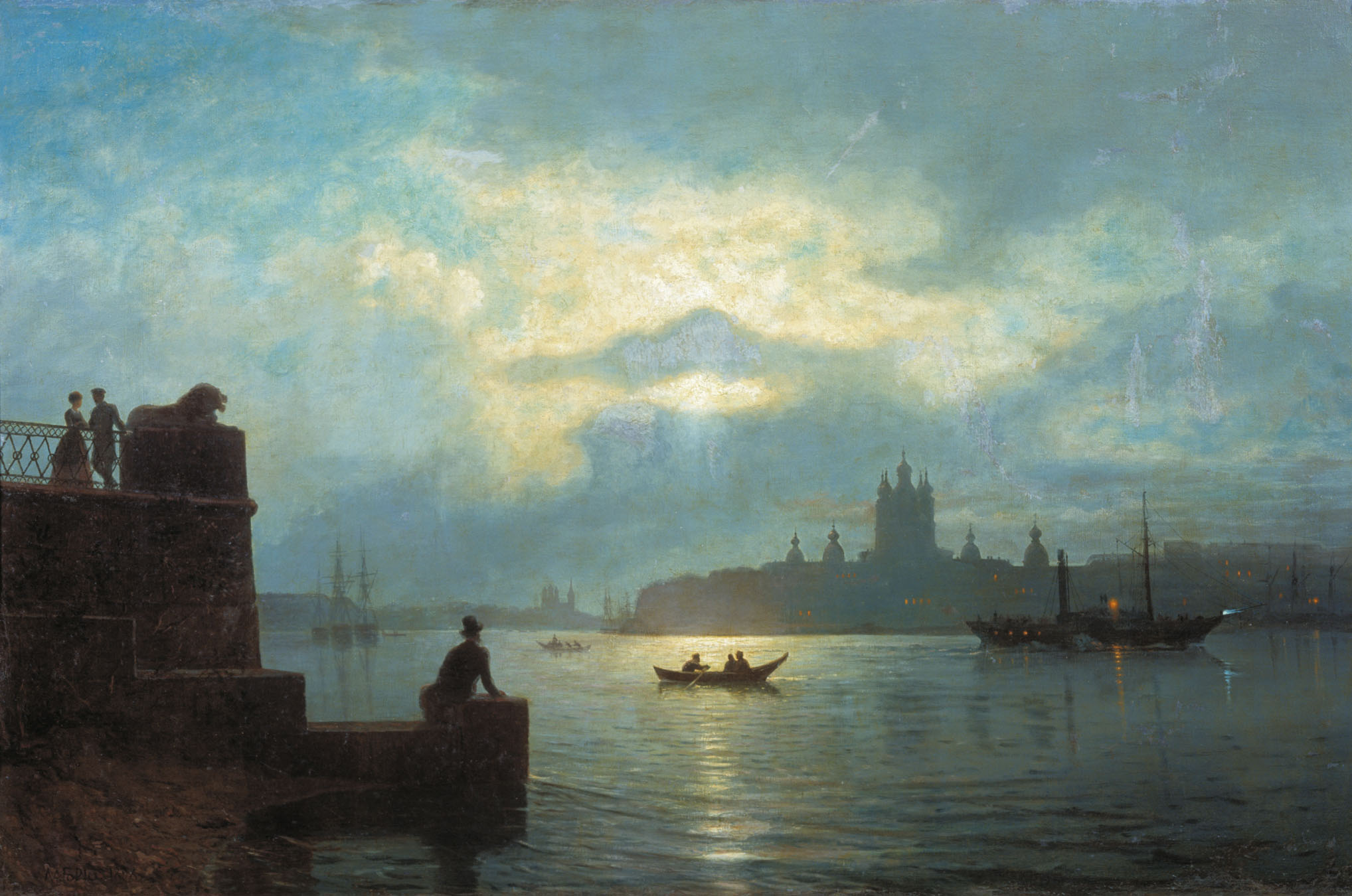 Moonlit Night on the Neva River, 1898. Primorye Regional Art Gallery, Vladivostok, Russia